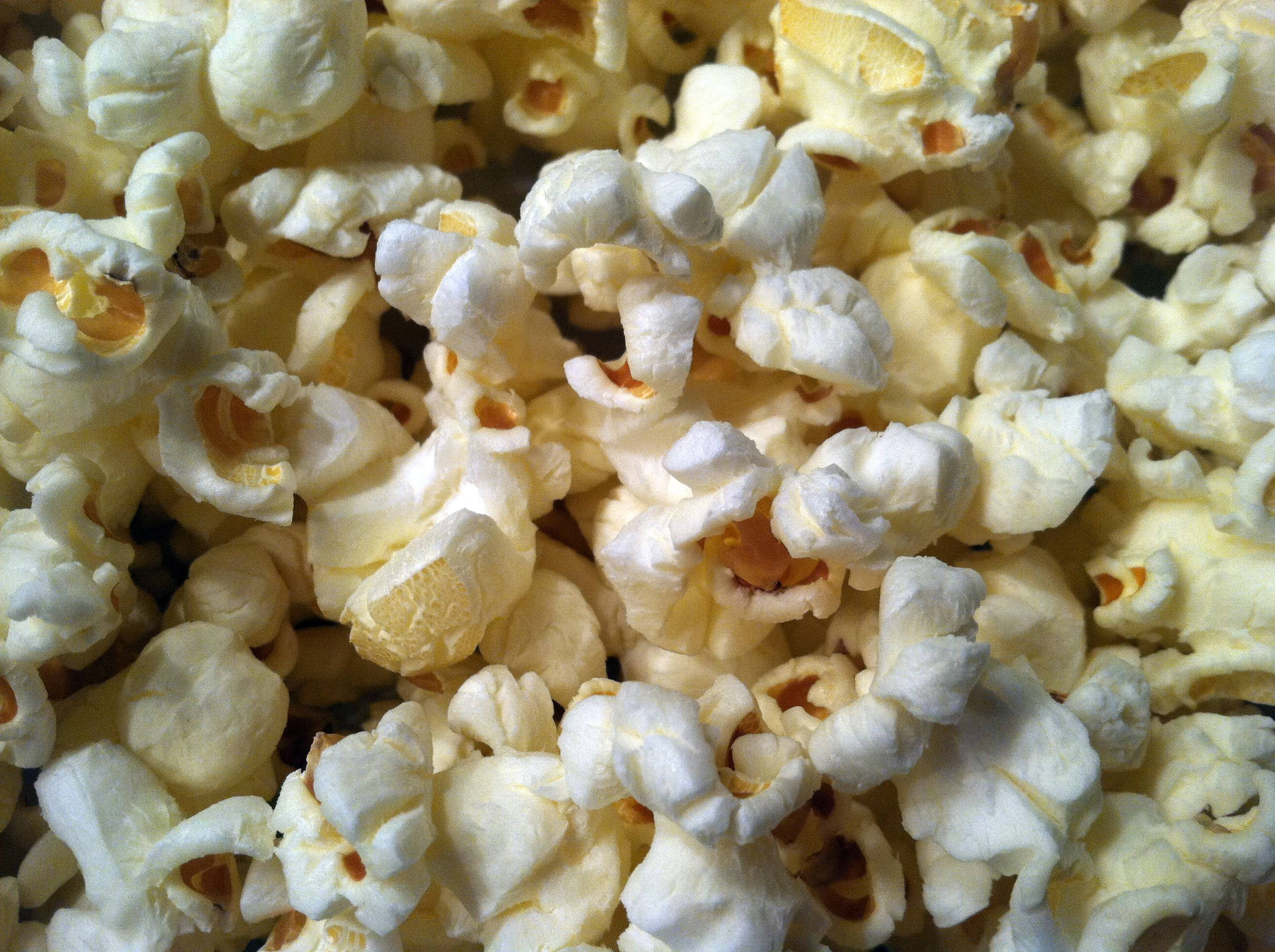 Close up of air-popped popcorn